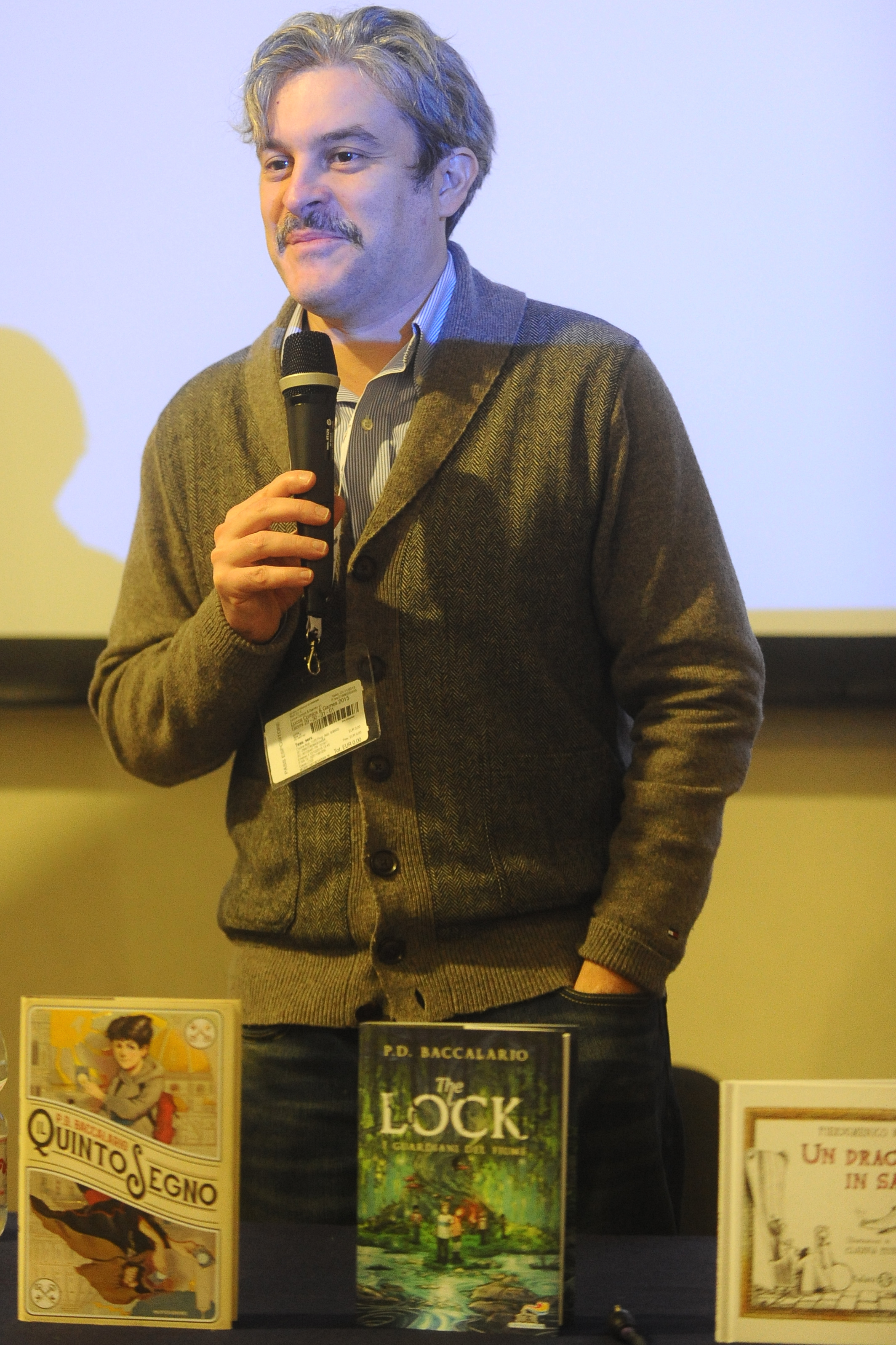 Pierdomenico Baccalario at Lucca Comics & Games 2015. Family Palace.